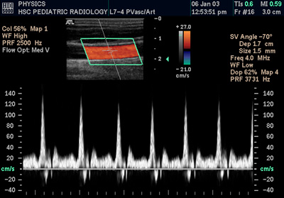 Medical spectral Doppler of common carotid artery By Daniel W. Rickey 2006